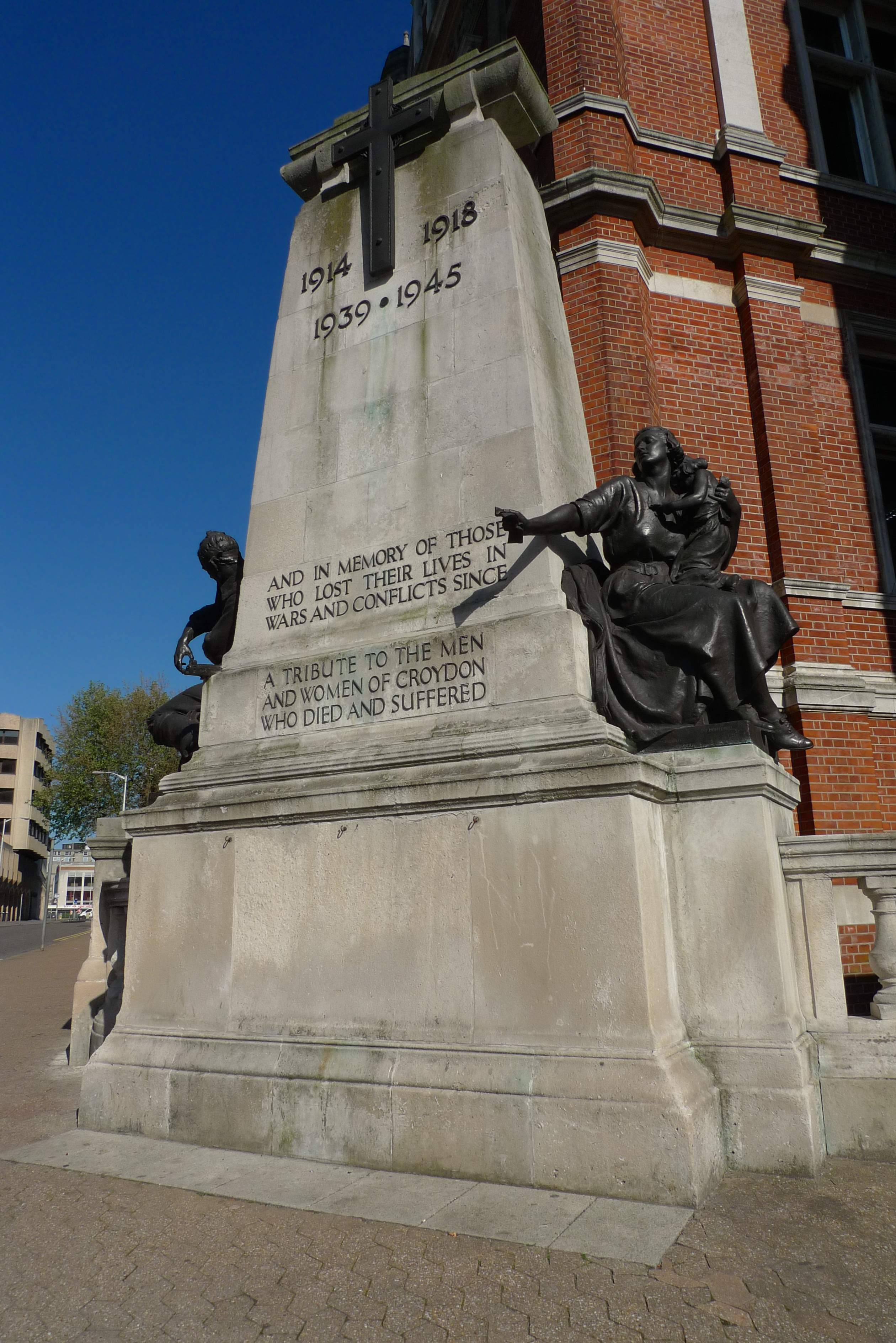 Croydon War Memorial, Katharine Street, Croydon. Image taken from the West. Commemorating both World Wars, this Grade II listed war memorial is incorporated into the balustrade of Croydon Town Hall. This side of the memorial features a sculpture by Paul Raphael Montford of a grieving war widow. Croydon War Memorial at English Heritage